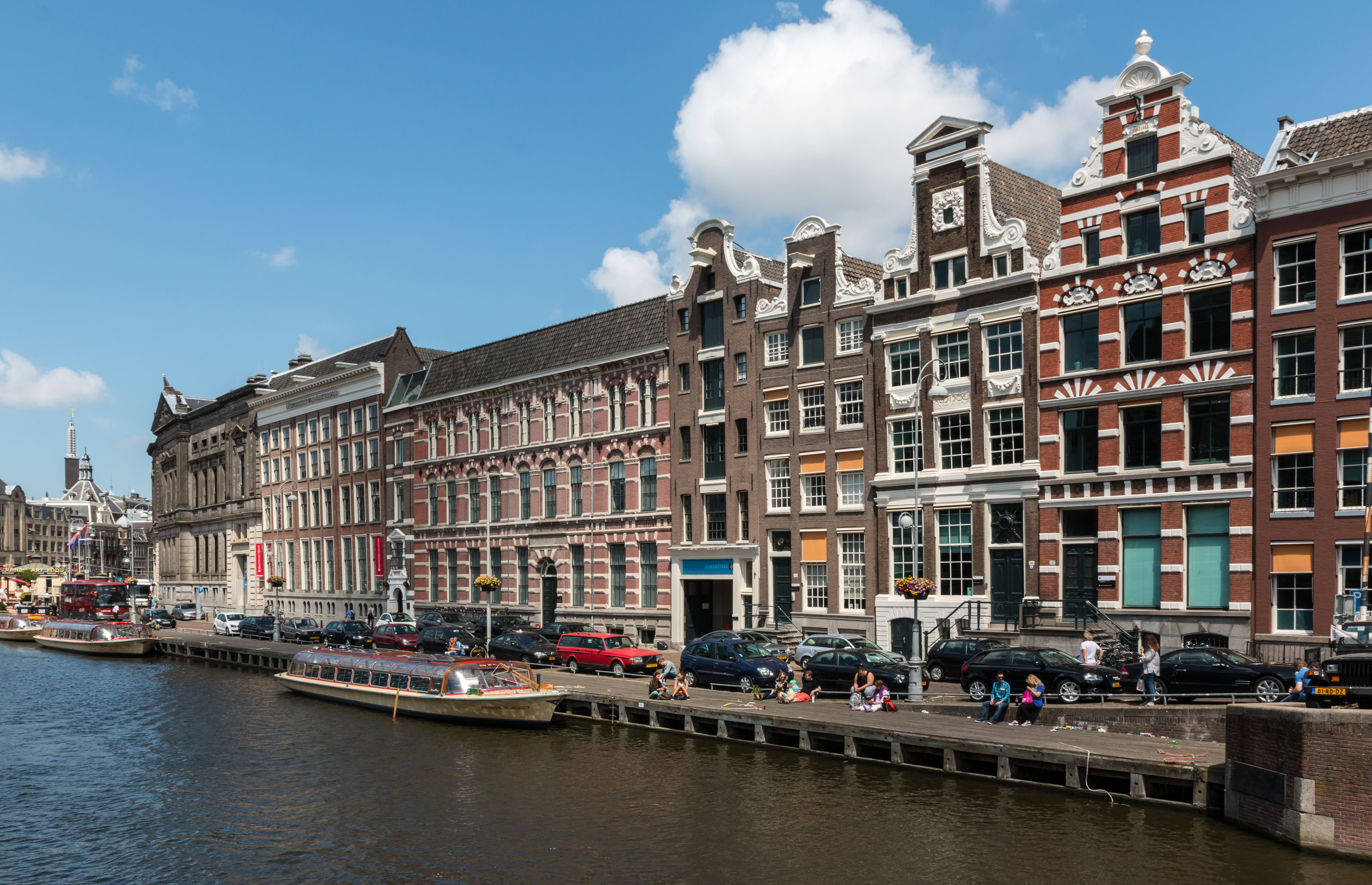 Rokin, Amsterdam, Netherlands This is an image of rijksmonument number 5783